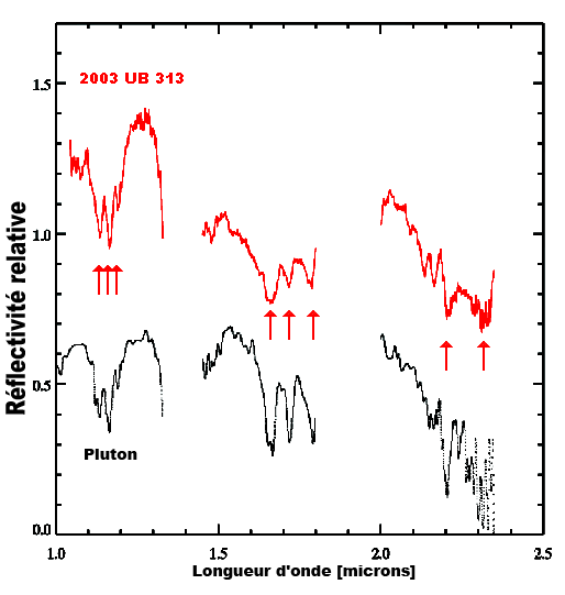 Image:2003 UB313 near-infrared spectrum.gif in french.Near infrared spectrum of minor planet w:2003 UB313, taken with the Gemini 8 m telescope. Credit: Michael Brown, Chad Trujillo, David Rabinowitz. Released under GFDL with permission from Michael Brown.